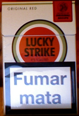 Author - Myself. It's my pack os cigarettes. picture took with my camera